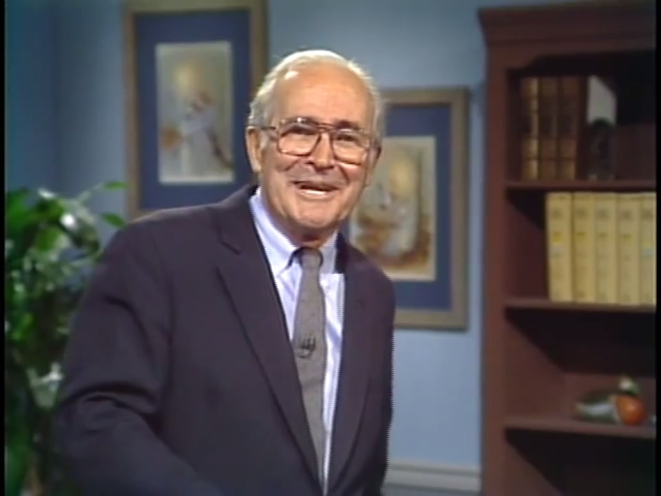 Gerstner's picture